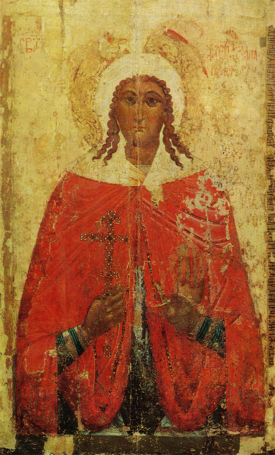 Icon of Paraskeva, Razan school